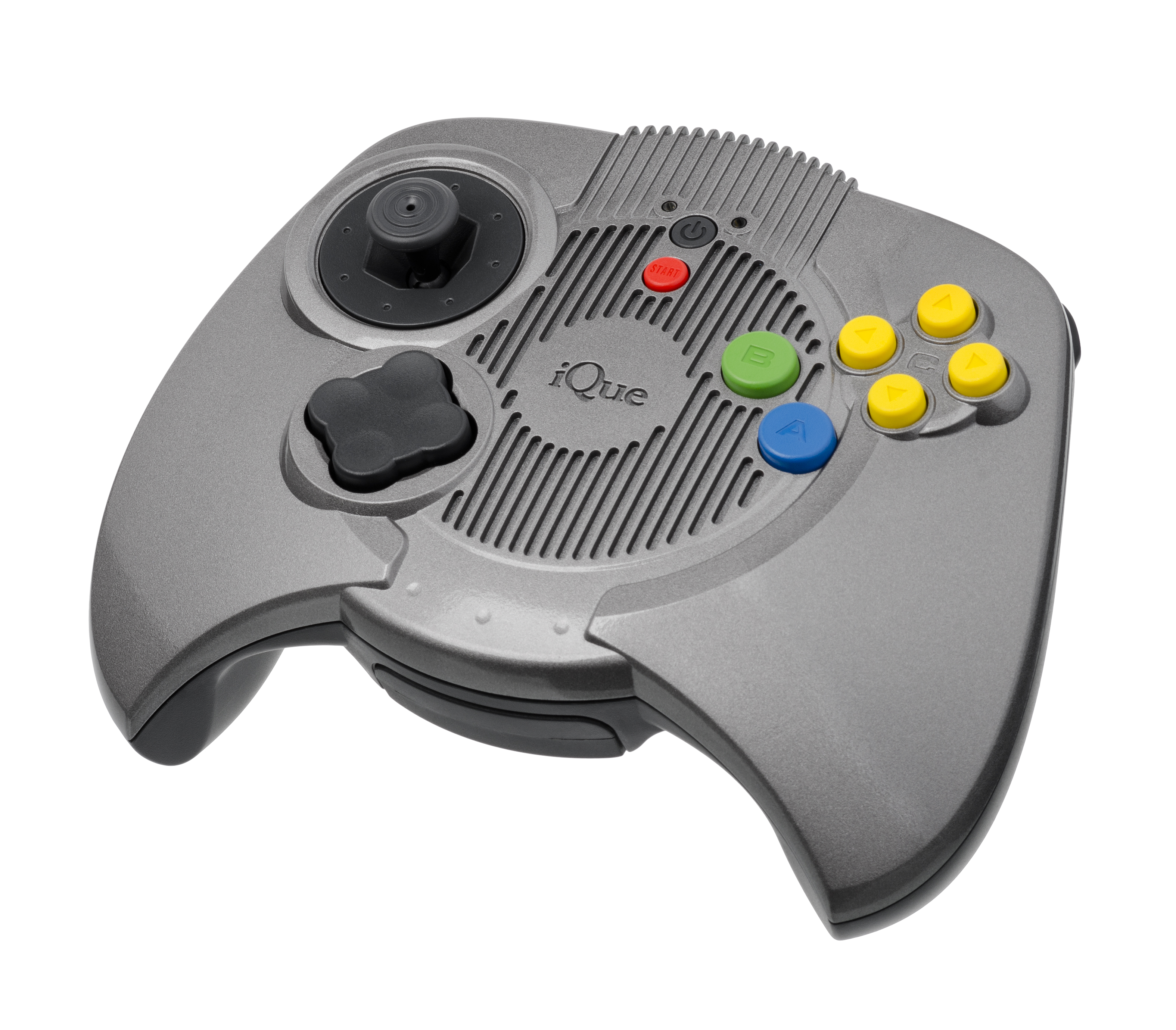 The iQue Player, an official all-in-one Nintendo 64 system released in China in 2003.